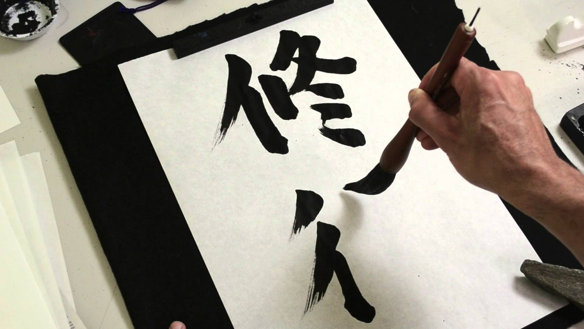 Example of Japanese calligraphy (書道 shodō)